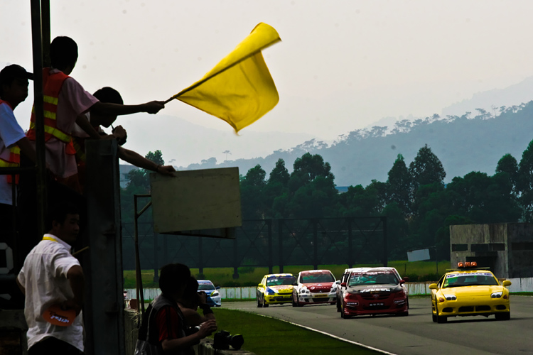 2007 China Circuit Championship (CCC): 1st Stage: Zhuhai * Safety Car